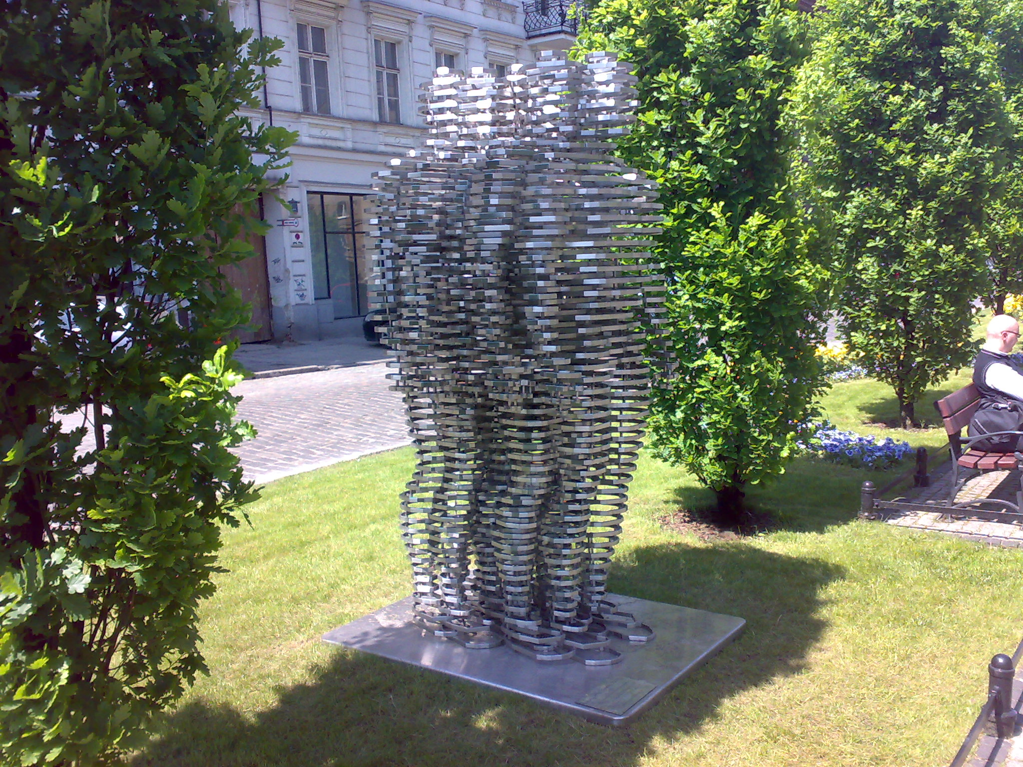 Golem Monument in Poznan(David Cerny sculptor).